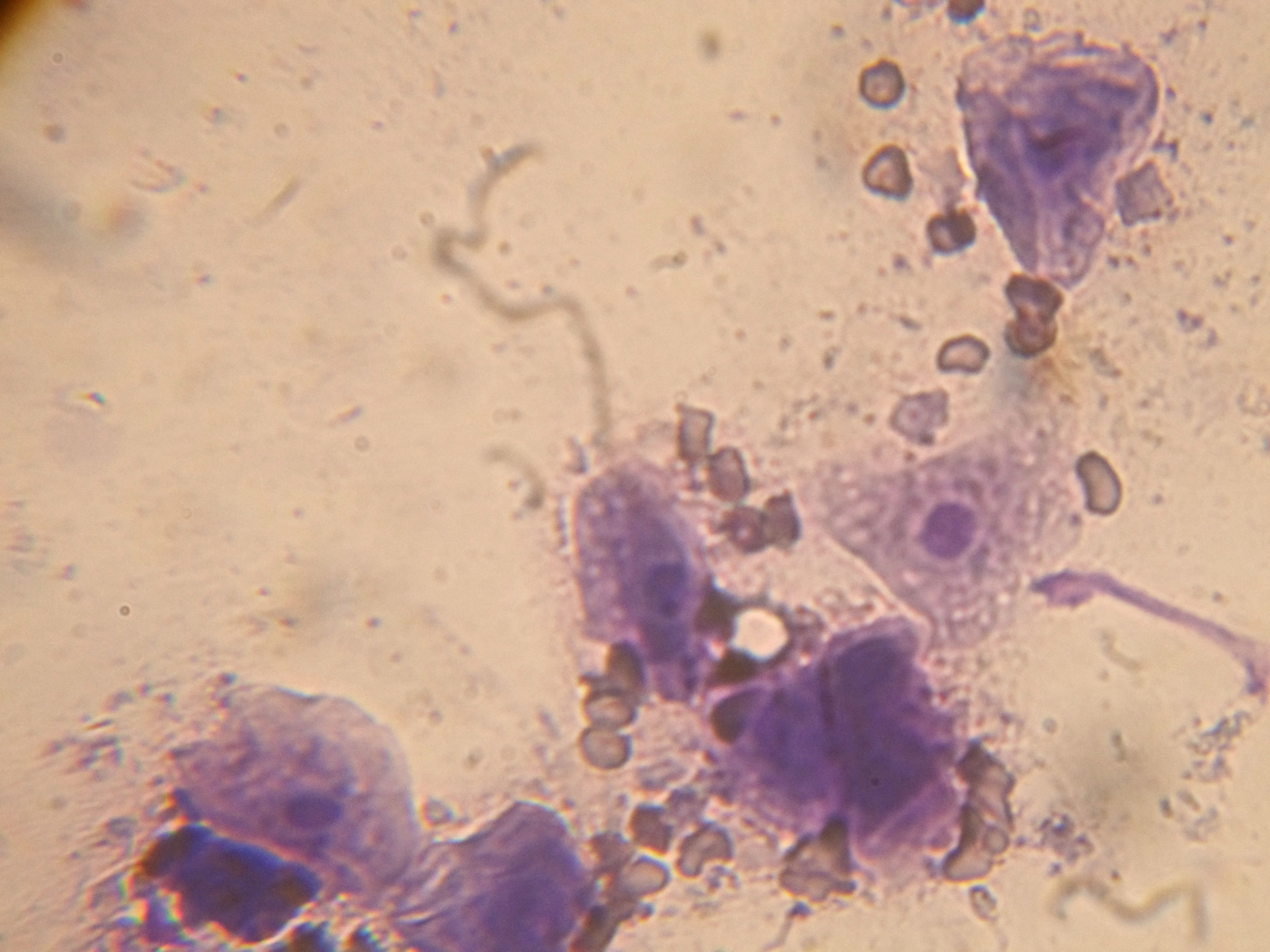 vaginal cytology in a bitch with ovarian remnant syndrome, typical cells of late proestrus